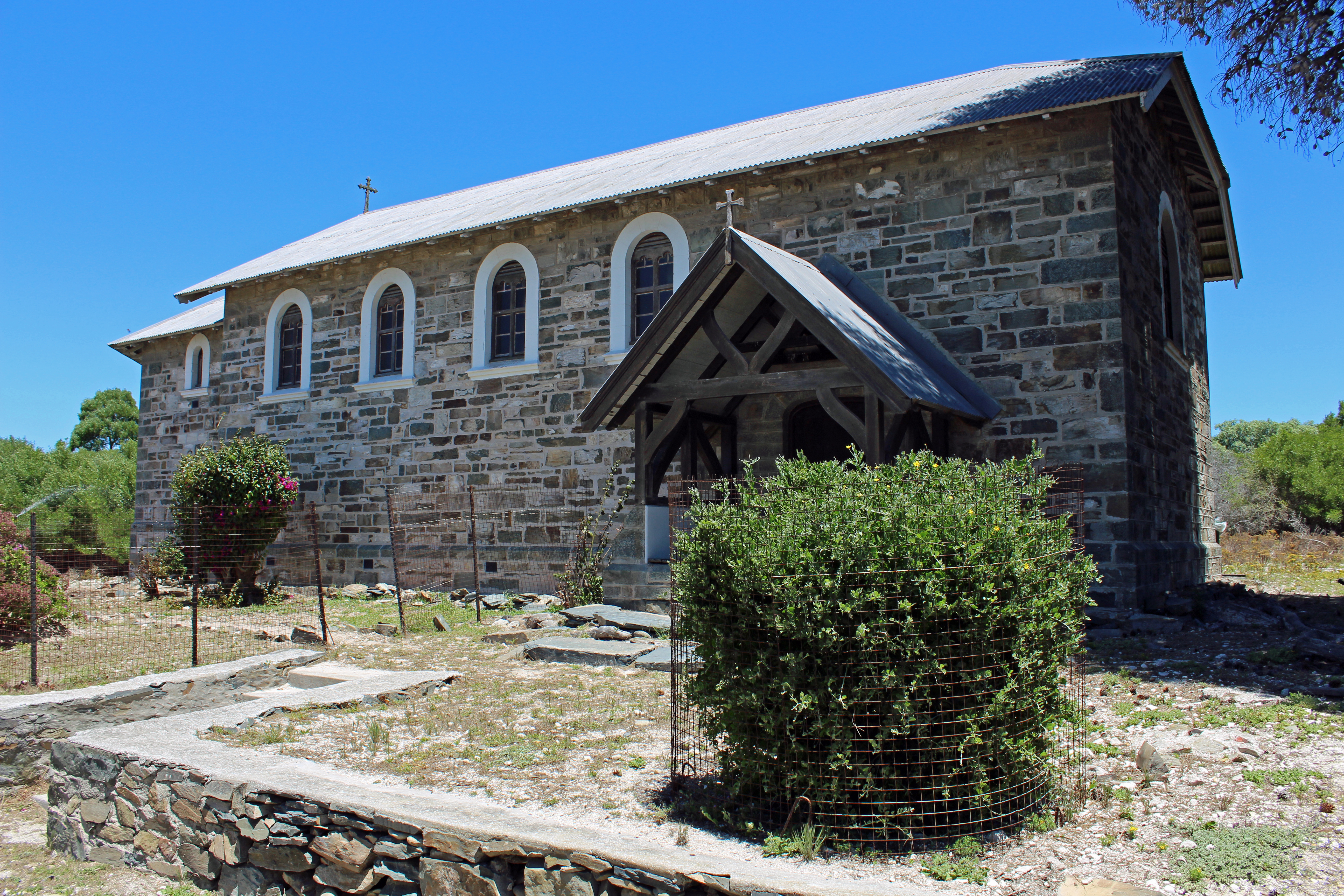 Leper church on Robben Island designed by Sir Herbert Baker. Photograph taken from tour bus (passengers not allowed to disembark).